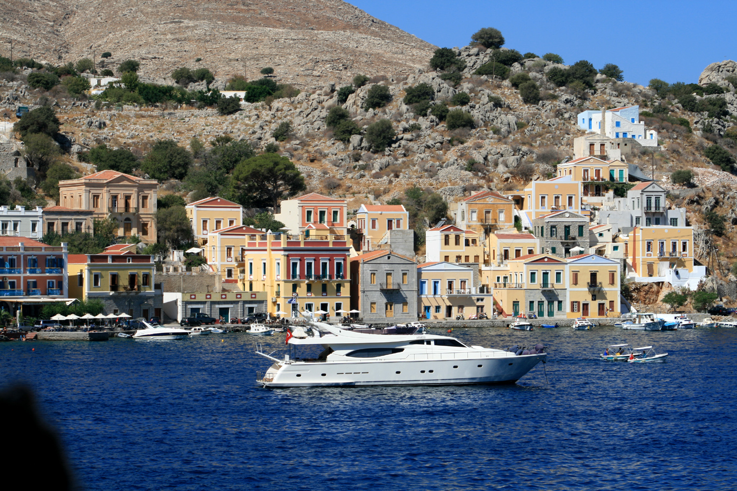 Small Greece town Sími on the Sími island Date=2007-08-25 Author= Karelj